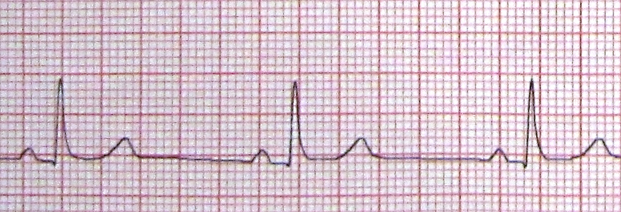 Sinus bradycardia as seen in lead 2. HR about 50.